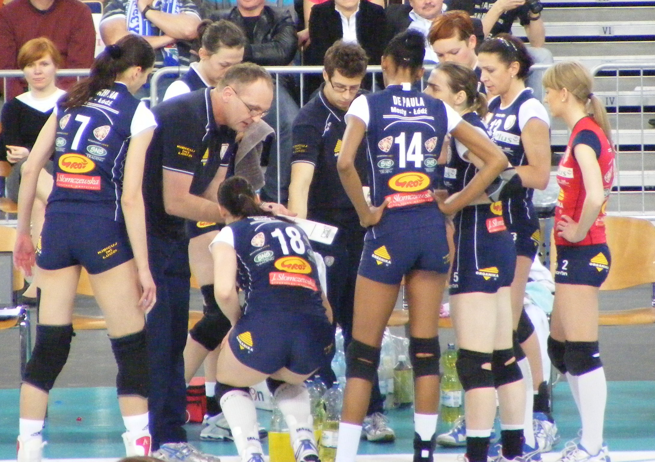 Organika-Budowlani Łódź, polish volleyball team, with coach Wieslaw Popik